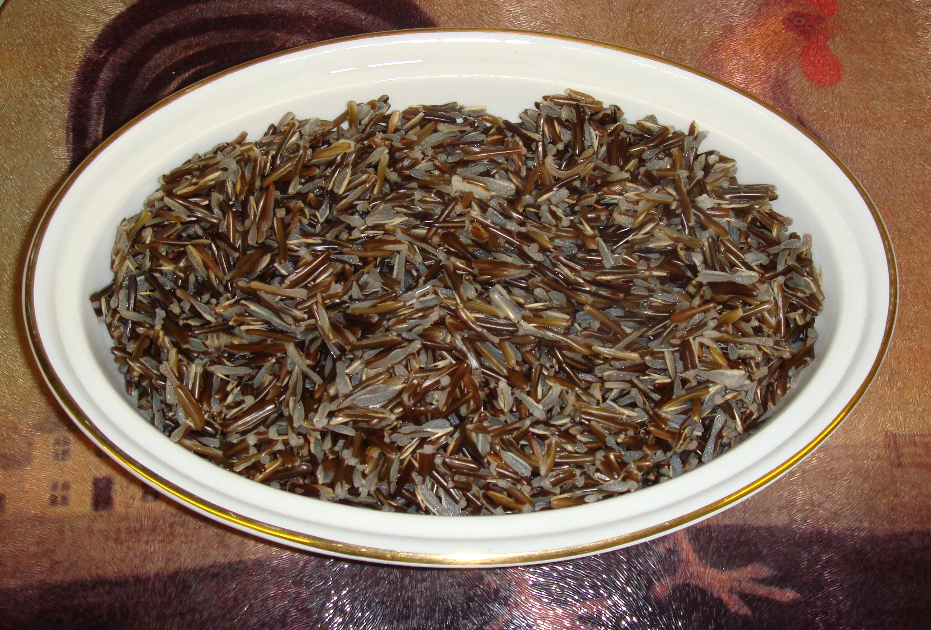 Cooked wild rice. Photo taken by ElinorD and released as GFDL.